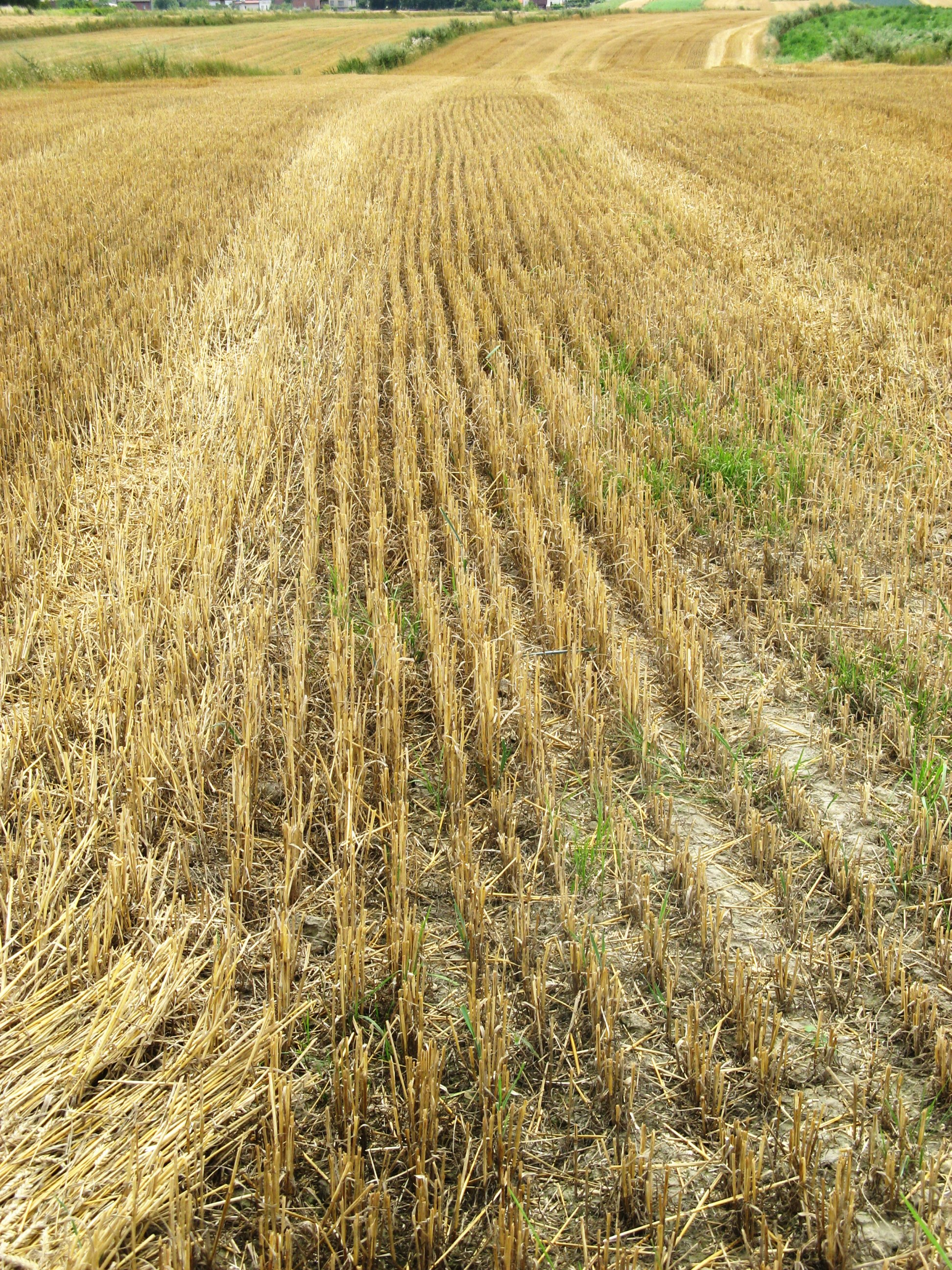 Wheat stubble. Siemianowice Śląskie, Poland.